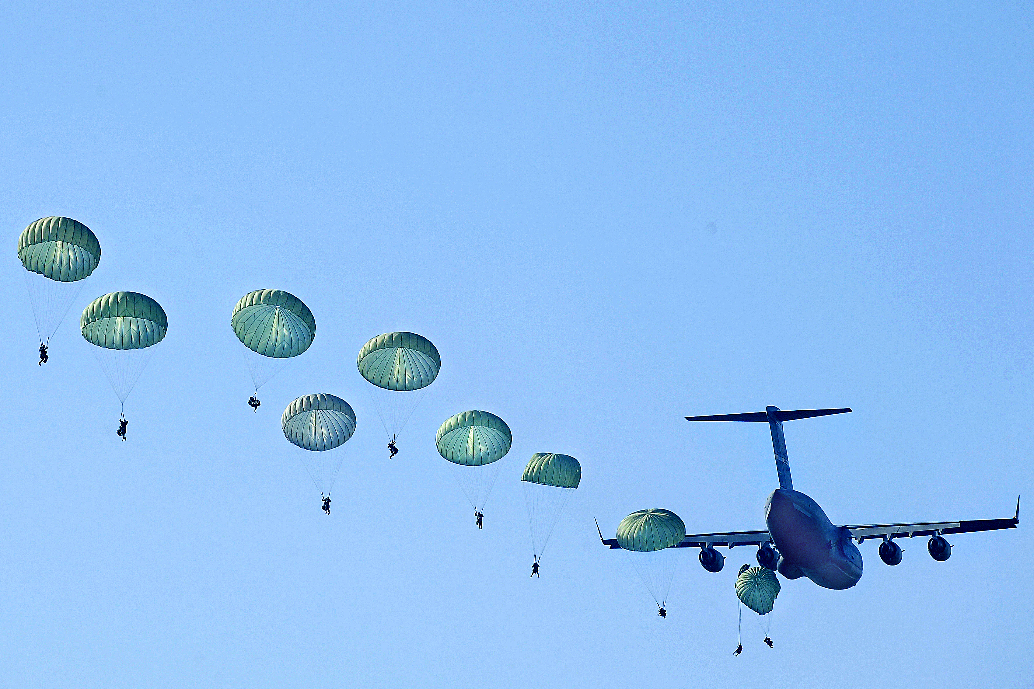 U.S. Army Rangers parachute from a U.S. Air Force C-17 Globemaster III during Ranger Rendezvous over Fryar Drop Zone on Fort Benning, Ga., Aug. 3, 2009. More than 1,000 Rangers assigned to four Ranger battalions from across the country participated in a mass tactical airborne operation. U.S. Air Force photo by Senior Airman Jason Epley See more at target= Mass jump, command change highlight Ranger Rendezvous